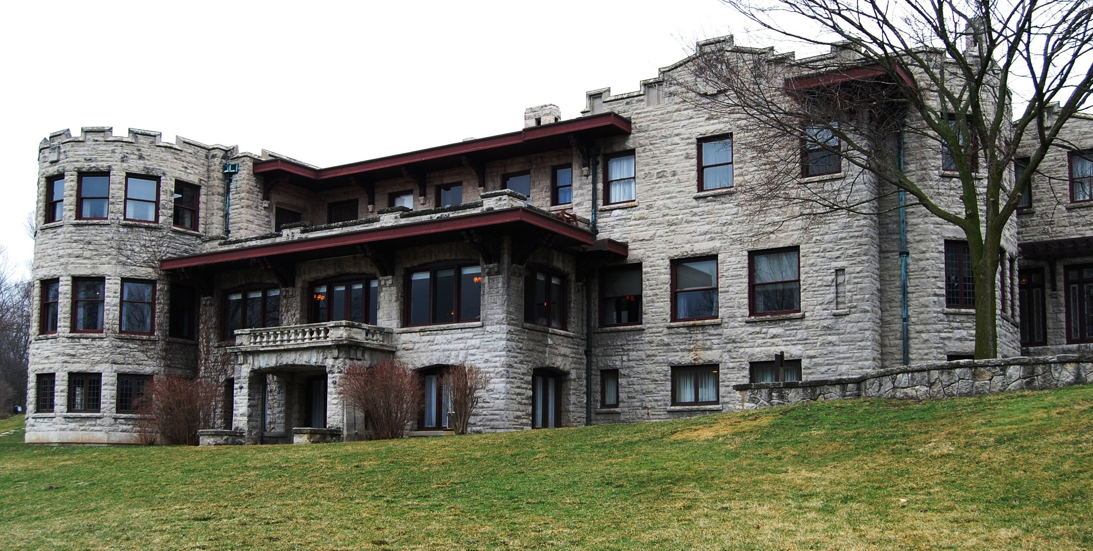 Fair Lane, Henry Ford Estate, Dearborn, Southwest side